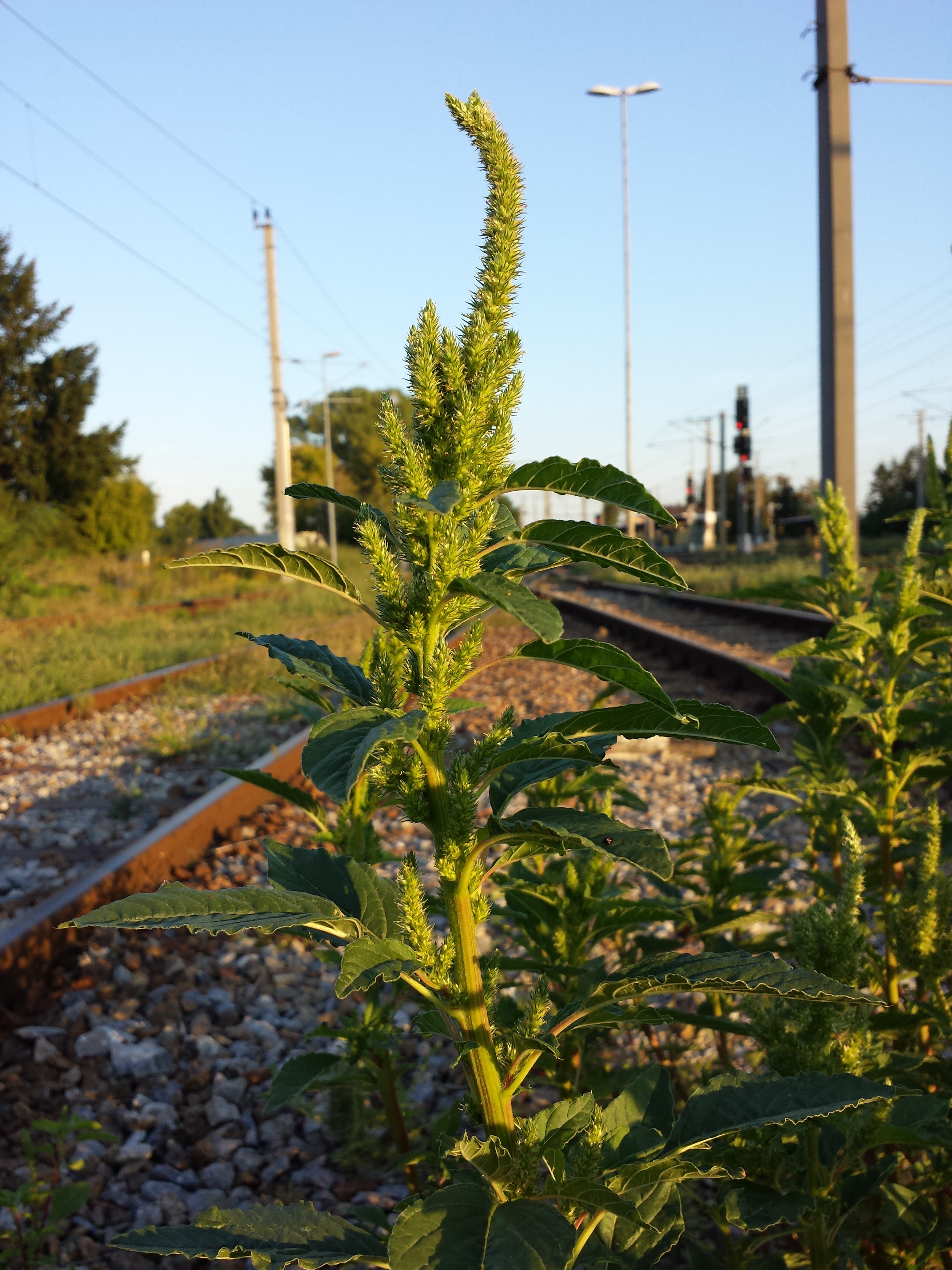 Inflorescence Taxonym: Amaranthus powellii subsp. powellii ss Fischer et al. EfÖLS 2008 ISBN 978-3-85474-187-9 Location: Jedlersdorf rail station, Vienna-Floridsdorf - ca. 160 m a.s.l. Habitat: rail area